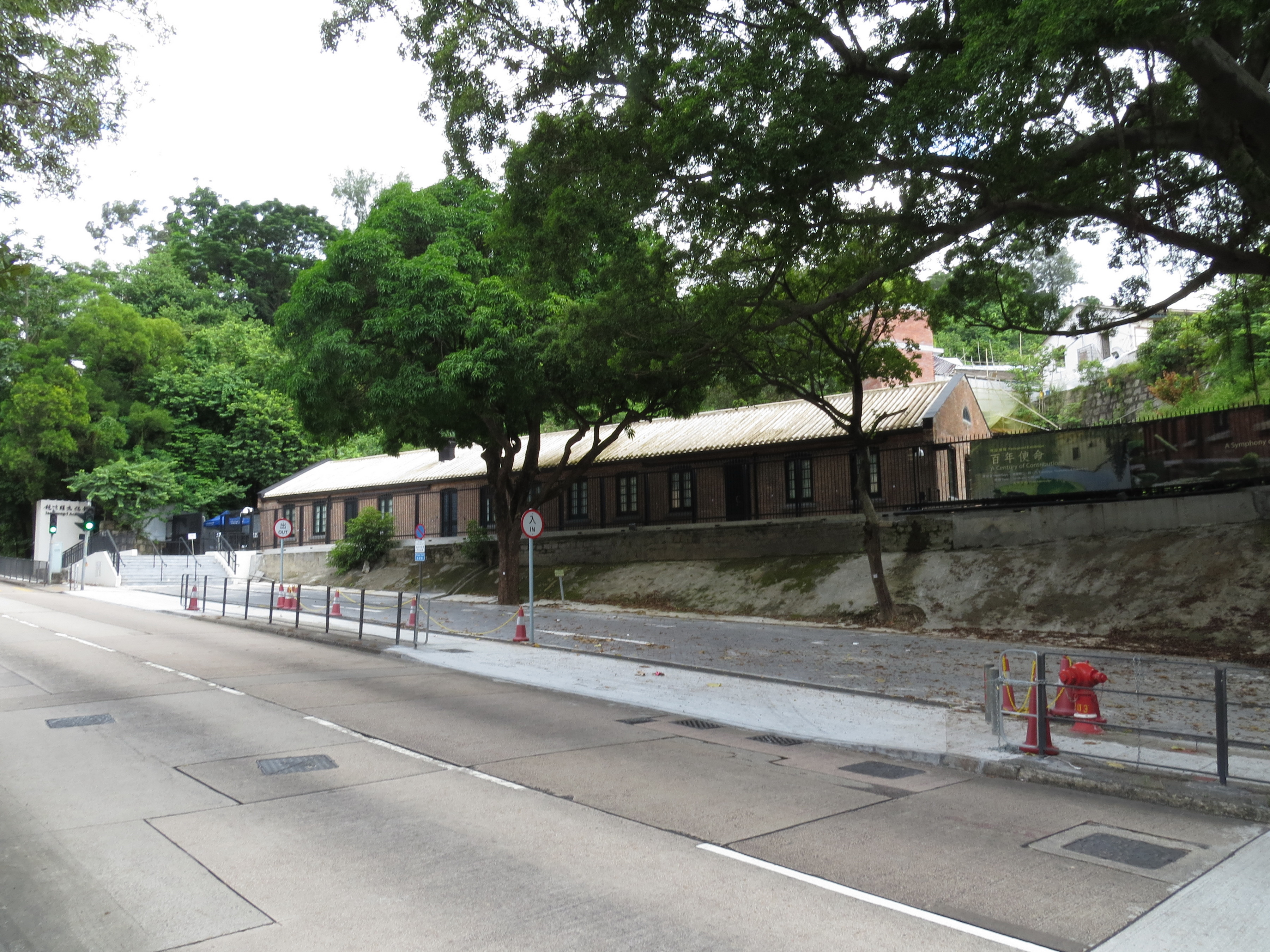 Jao Tsung-I Academy, Lai Chi Kok, Kowloon, Hong Kong.